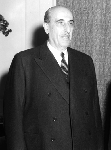 Ph.Studio/January,1957,A10z H.E. Mr. Shukri Al-Kuwatly, President of Syria with the Prime Minister, Shri Jawaharlal Nehru, when the latter called on the Syrian President at R. Bhavan, New Delhi on January 17, 1957. From left to right: Syrian Foreign Minister Salah al-Bitar, Syrian President Shukri al-Quwatli, Indian Prime Minister Jawaharlal Nehru